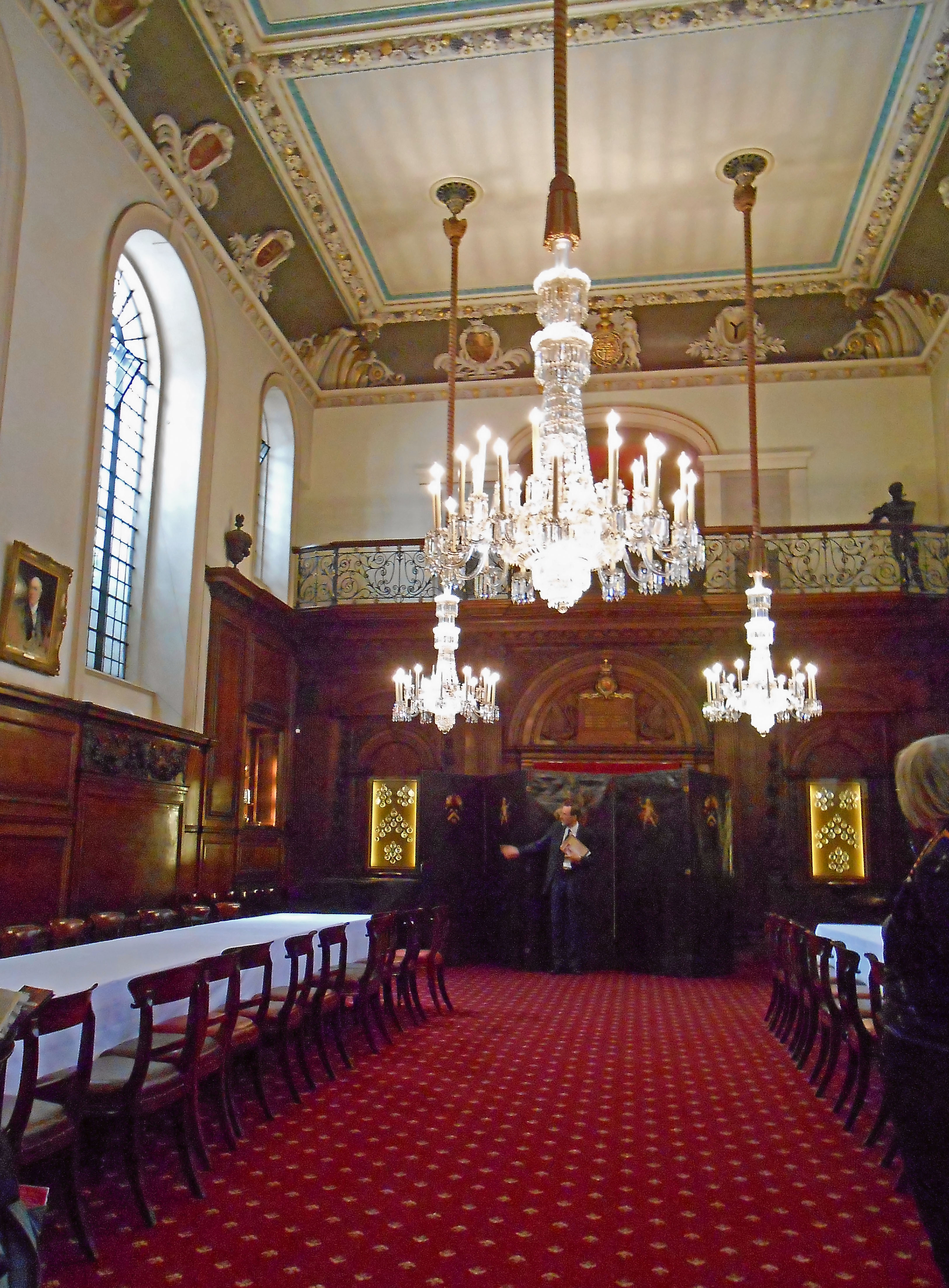 The Hall; the main function room rebuilt after the Great Fire on the lines of the original Medieval building.